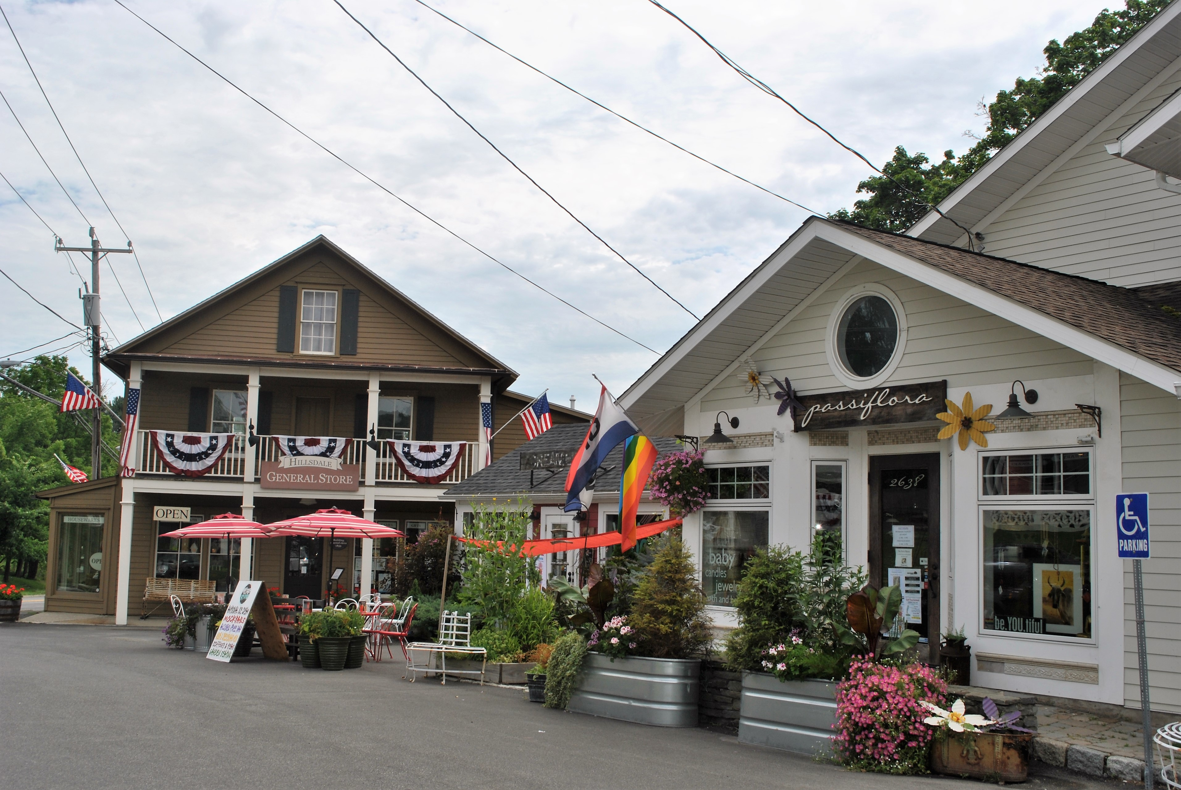 Image originally published in Queer Places: Retracing the Steps of LGBTQ people around the World Authored by Elisa Rolle